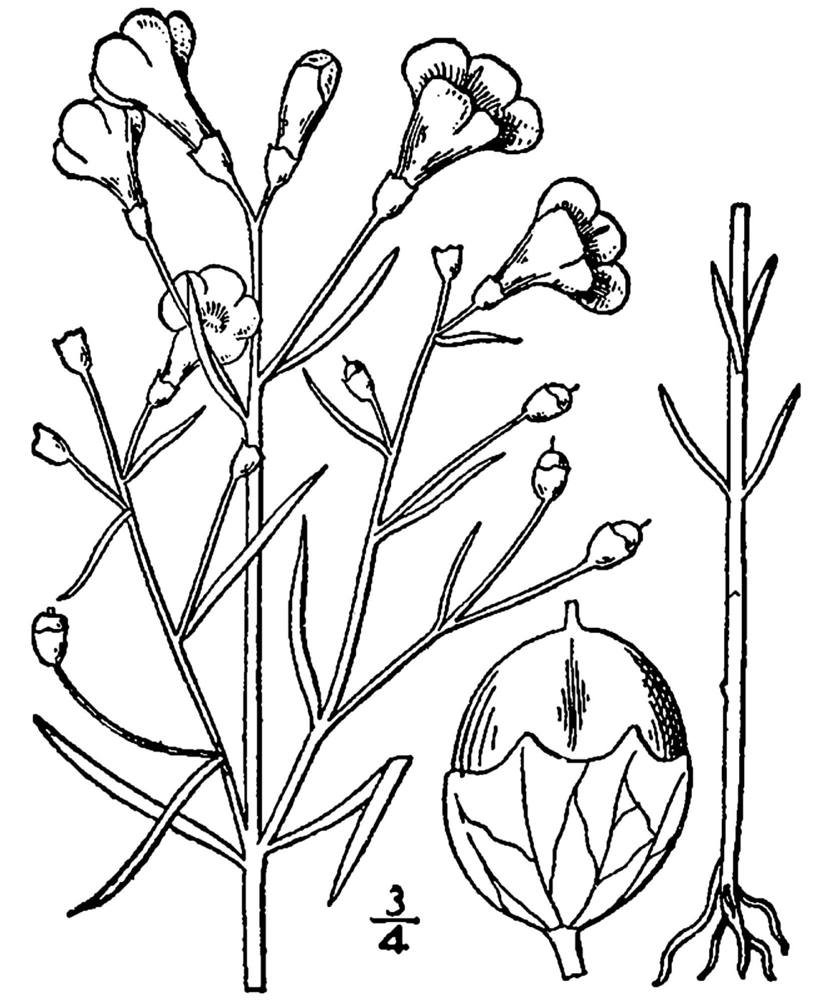 Slenderleaf False Foxglove. Drawing.